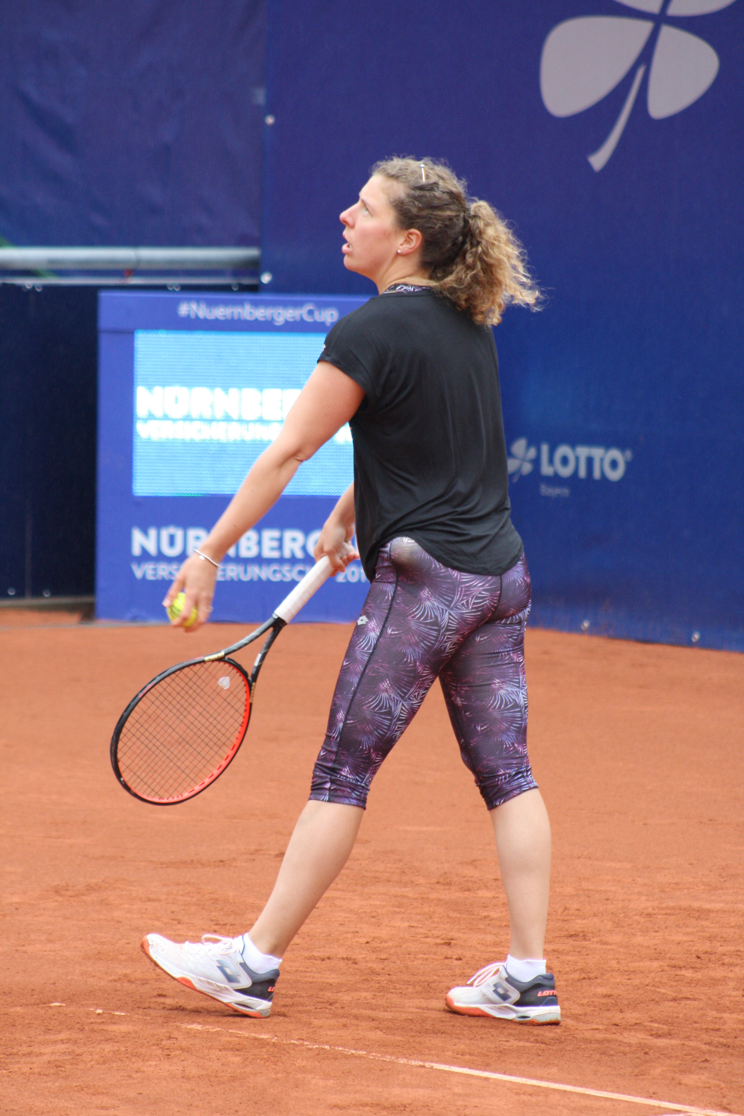 Anna-Lena Friedsam, May 2019